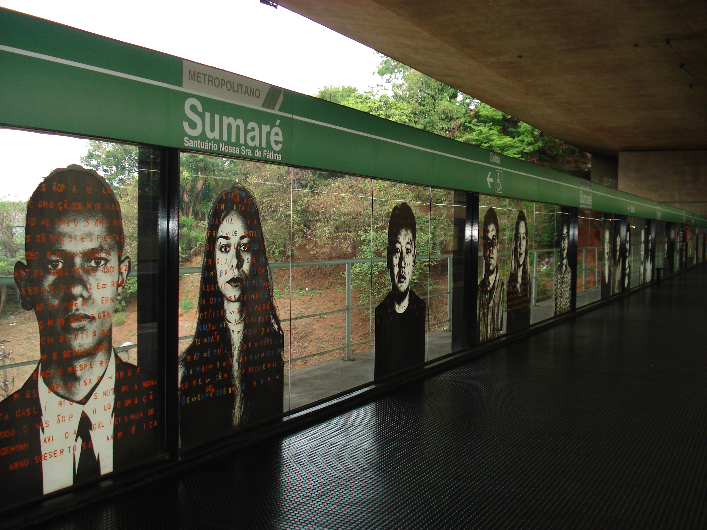 Sumaré Station - SP Subway